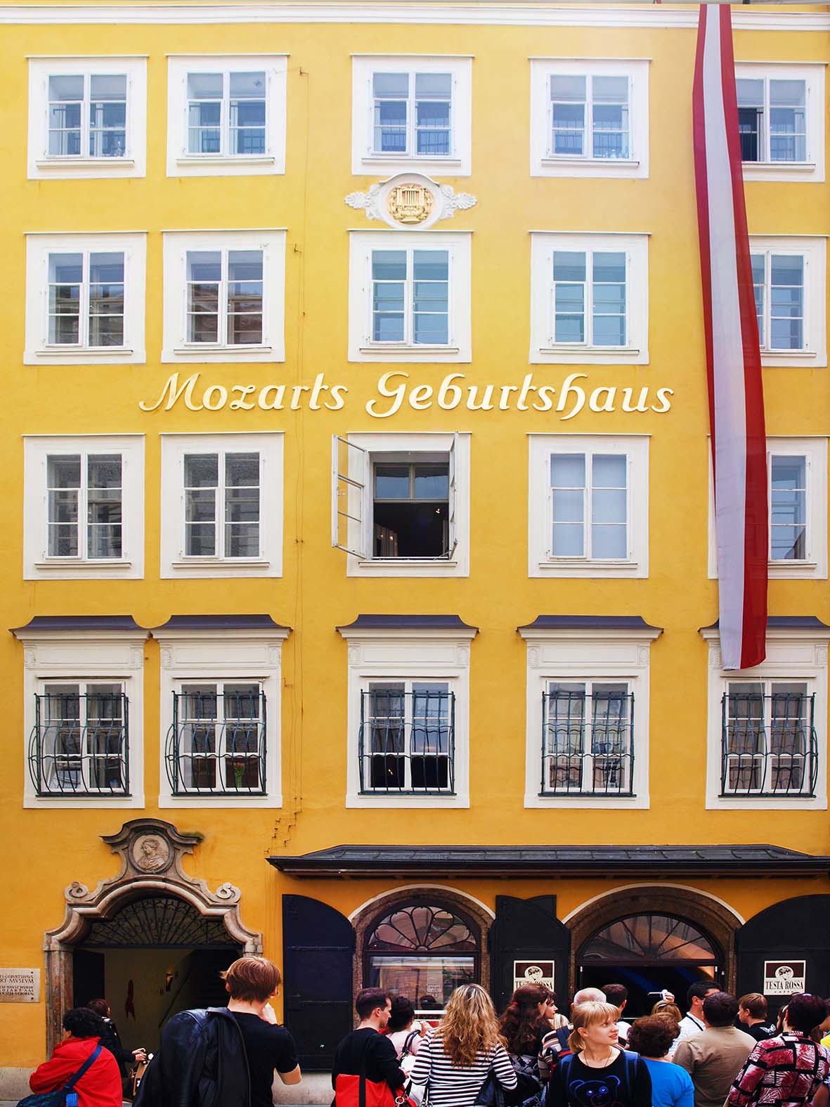 Salzburg, Getreidegasse